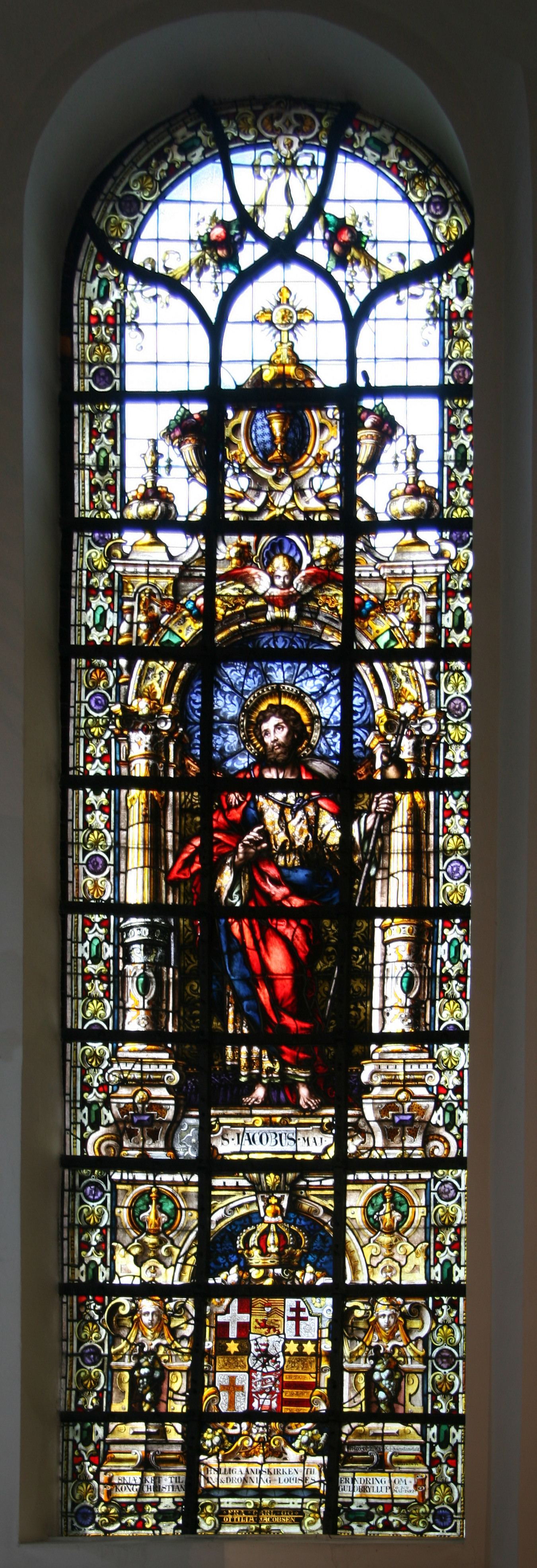 Helligåndskirken, Copenhagen, Denmark. Glass painting in quire. St. Jacobus. Digitally corrected for perspective.